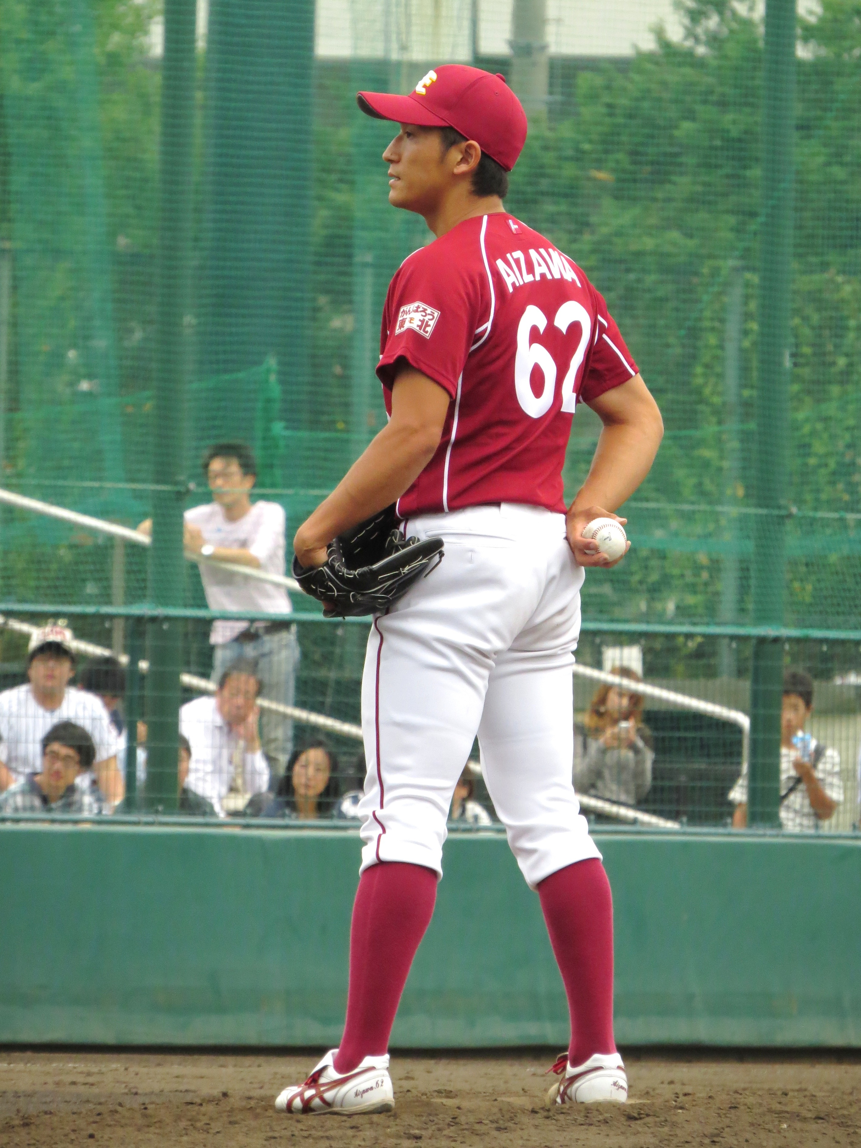 Susumu Aizawa, pitcher of the Tohoku Rakuten Golden Eagles, at Lotte Urawa Baseball Ground.